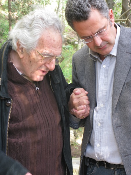 Photo from the movie Une terre pour un homme